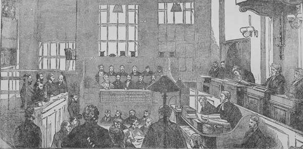 Trial of the four Americans at the Old Bailey, London for the 1873 Bank of England forgeries. First published in "Bidwell's Travels, from Wall Street to London Prison Fifteen Years in Solitude", copyrighted 1897 by Bidwell Publishing Company, Hartford, Conn.